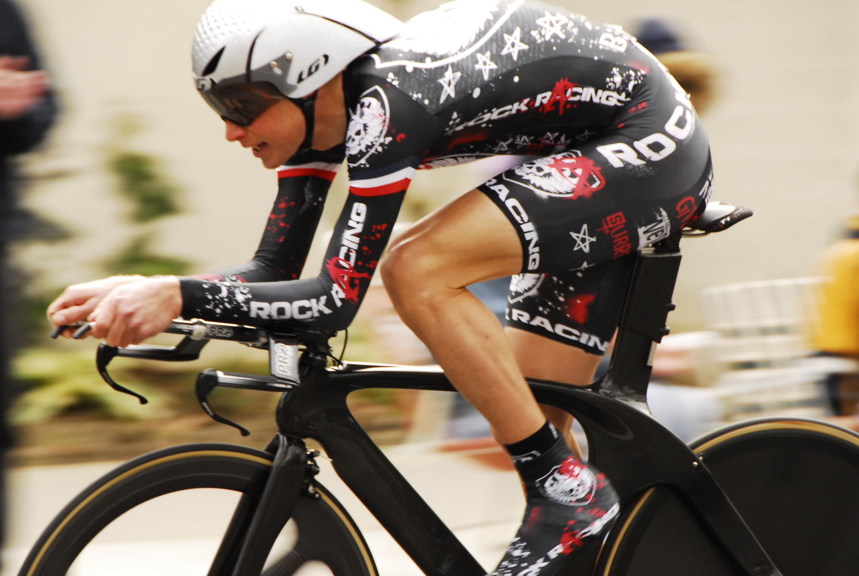 Chris Baldwin, Tour of California 2009